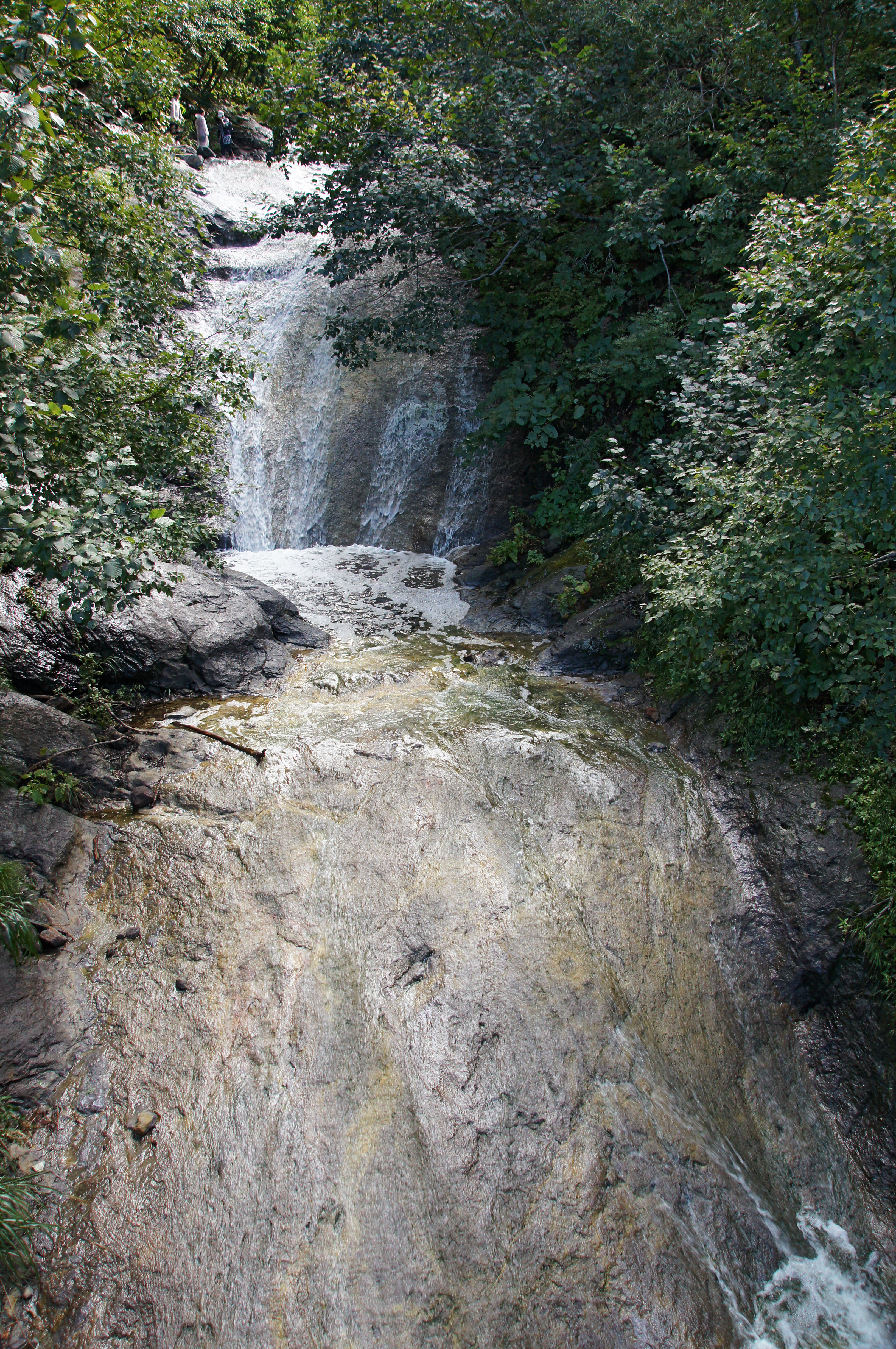 Kamuiwakka Falls in Shari, Hokkaido prefecture, Japan